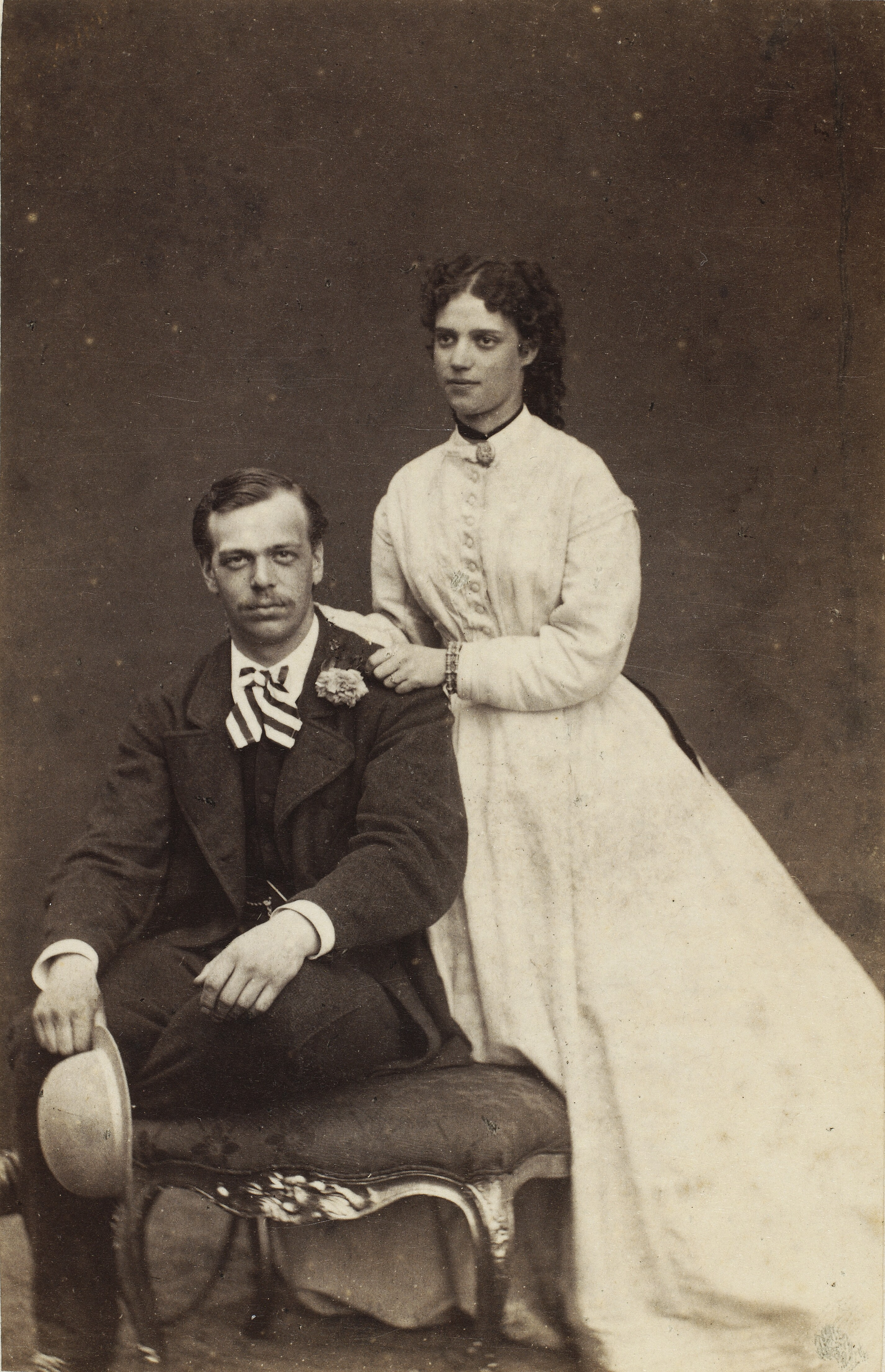 Tsarevich Alexander and the Danish Princess Dagmar. June 1866